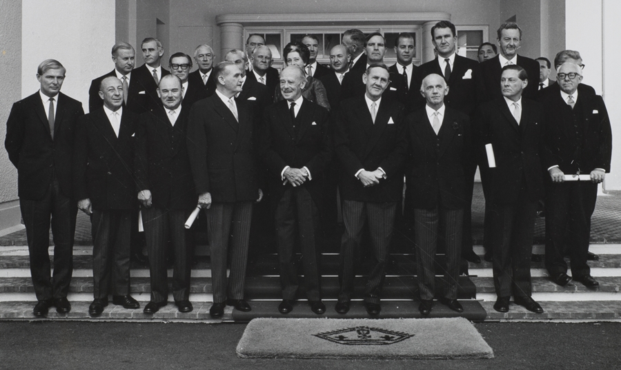 The First Gorton Ministry being sworn in by Governor-General Lord Casey